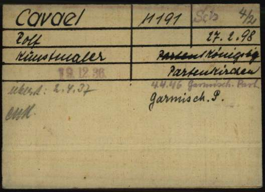 Registration card of Rolf Cavael as a prisoner at Dachau Nazi Concentration Camp.